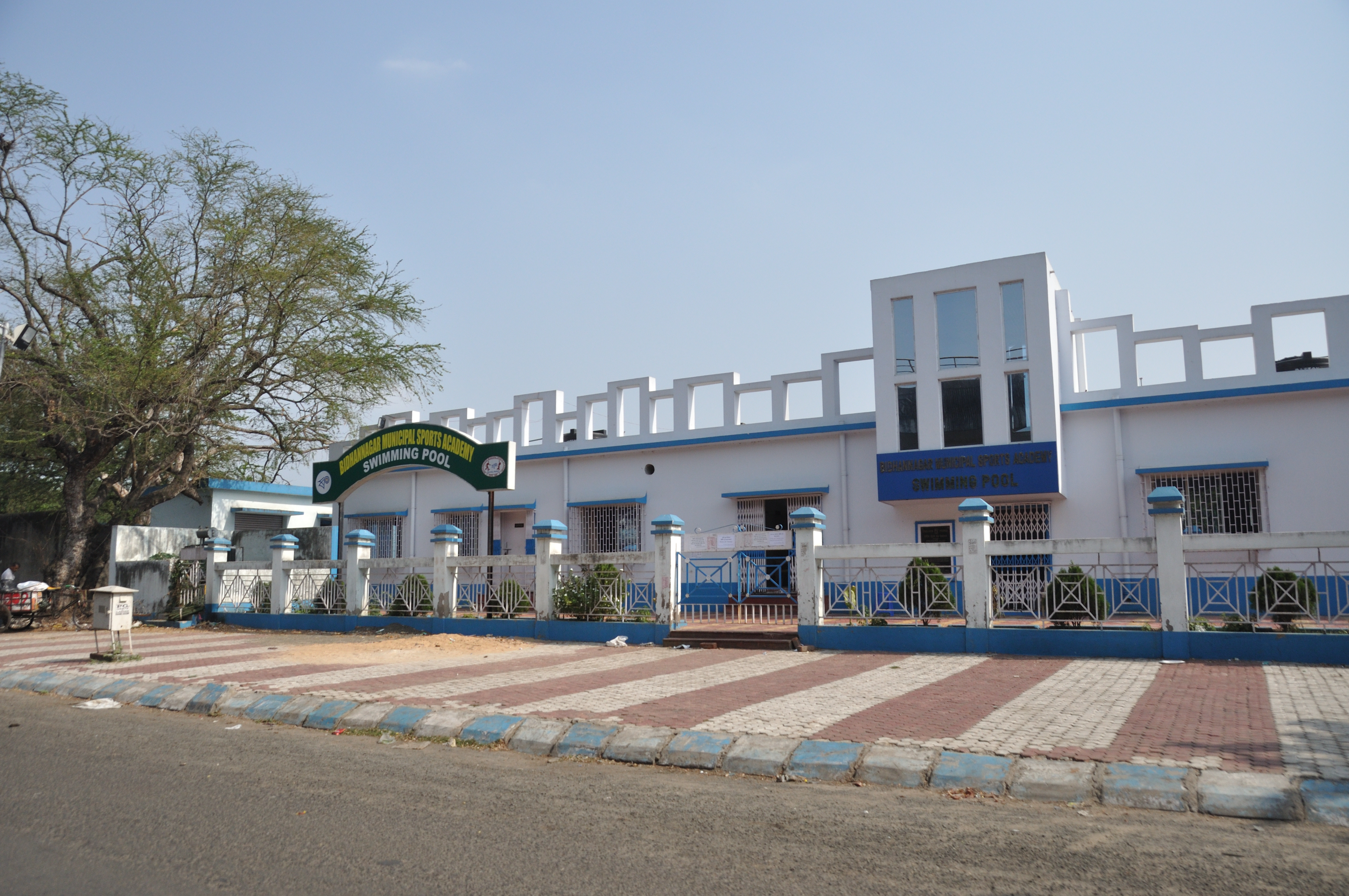 This photograph was taken in Kolkata.